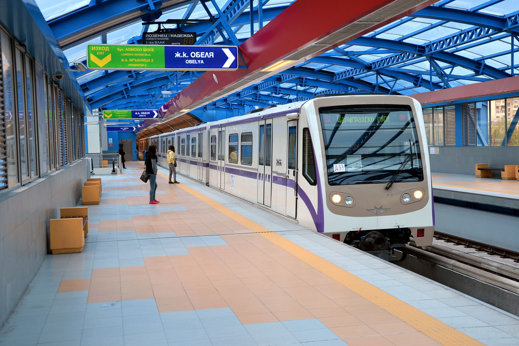 Sofia metro train at "Lomsko shose station"